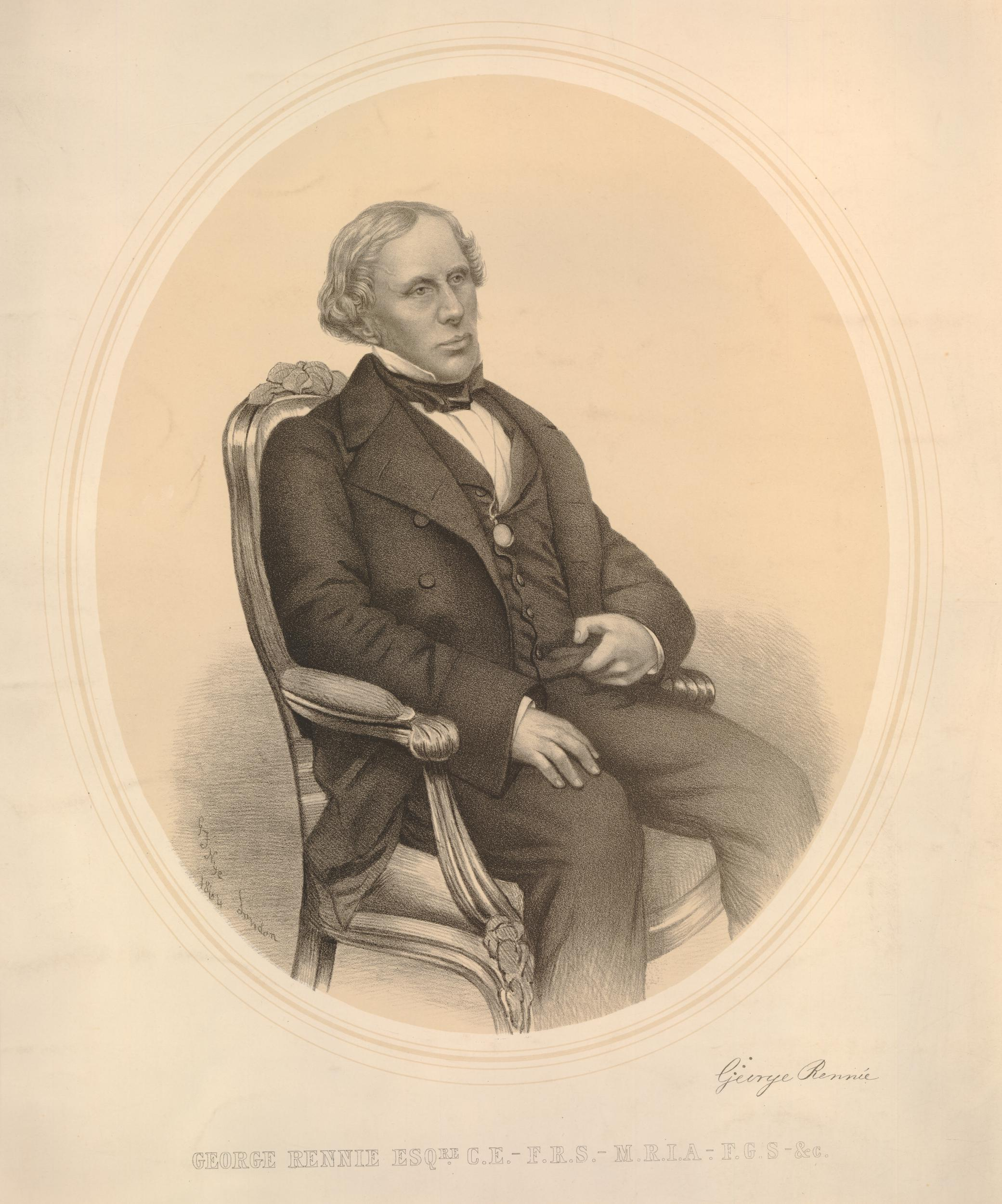 Portrait of George Rennie, three-quarter length sitting in armchair to right, in oval frame. 1864 Tinted lithograph